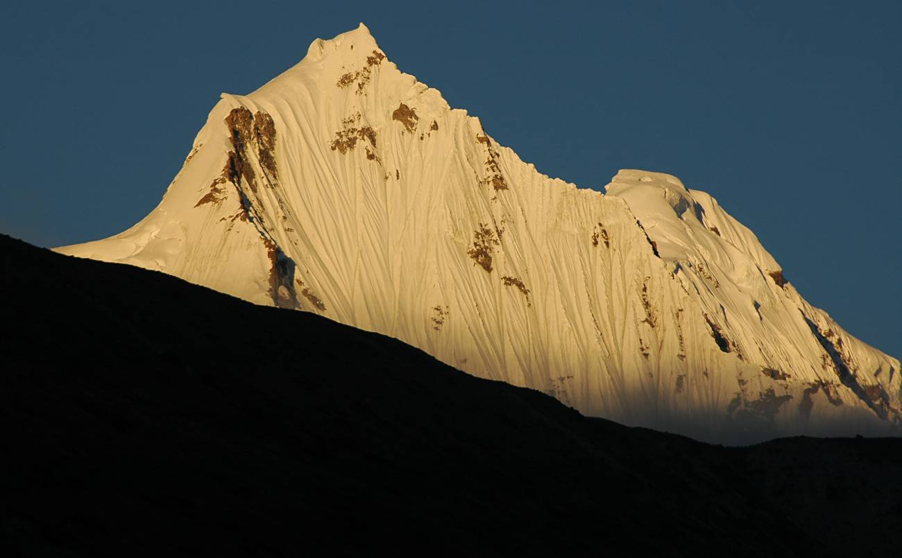 One of the satellite peaks of Kangchengyao ("the bearded peak") in North Sikkim.